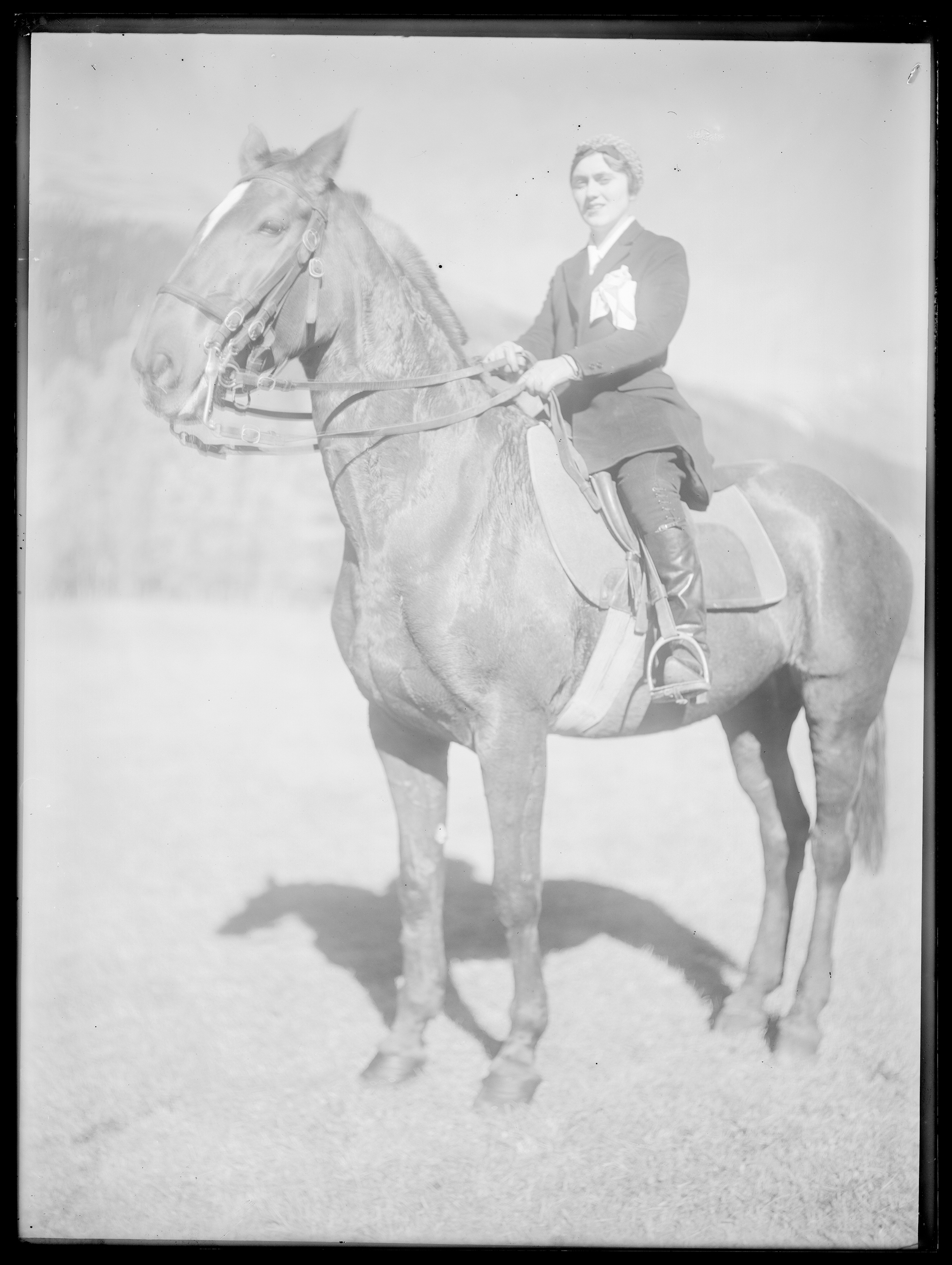 Fotografie von Ernst Ludwig Kirchner, die die Davoser Reiterin Rosita Schneider im Jahr 1931 zeigt.